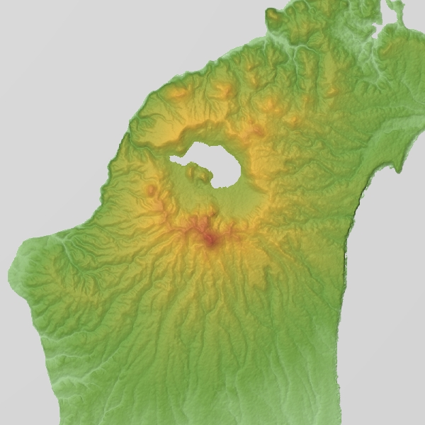 Golovnin is a volcano in Kunashir Island , Kuril Islands, Russia. Also kown as Tomariyama in Japan.